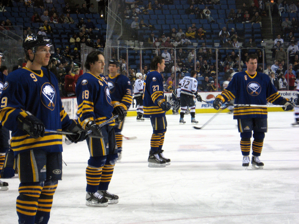 Derek Roy, Daniel Briere, Teppo Numminen and Jaroslav Spacek of the Buffalo Sabres, pre game warm up, Jan. 2007